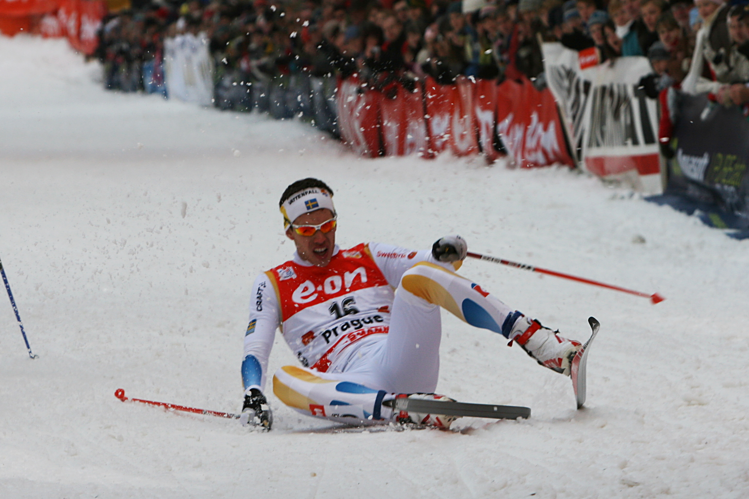 Marcus Hellner in the quaterfinals of Tour de Ski in Prague